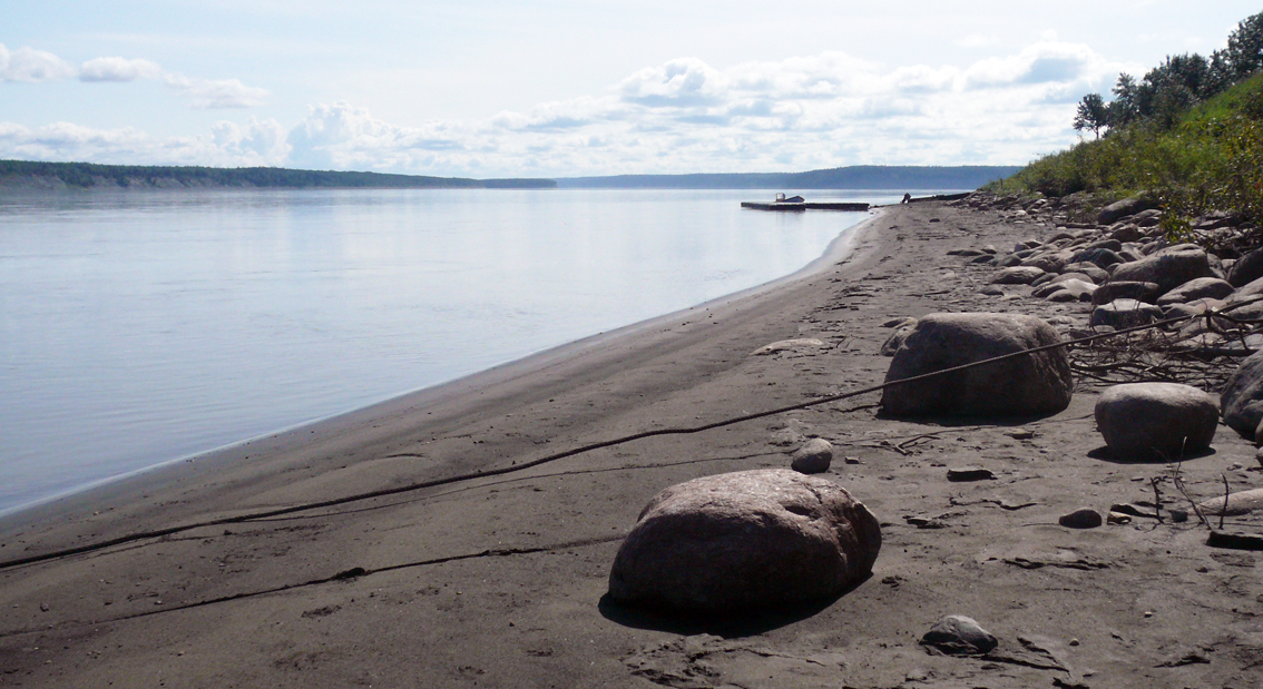 Mackenzie River in Fort Simpson, the confluence with Liard river on the background